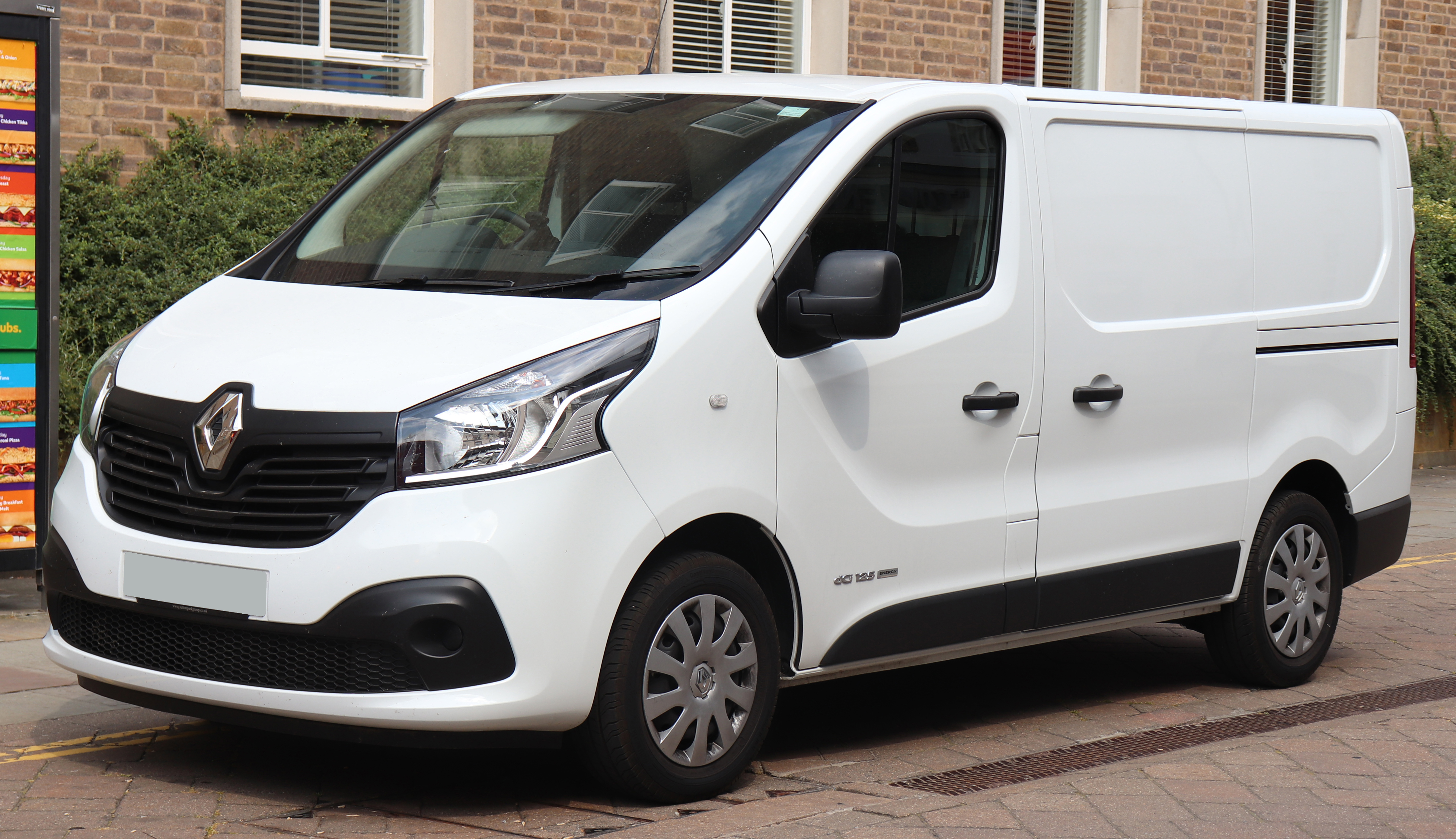 2018 Renault Trafic SL27 Business+ Energy 1.6 Front Taken in Warwick